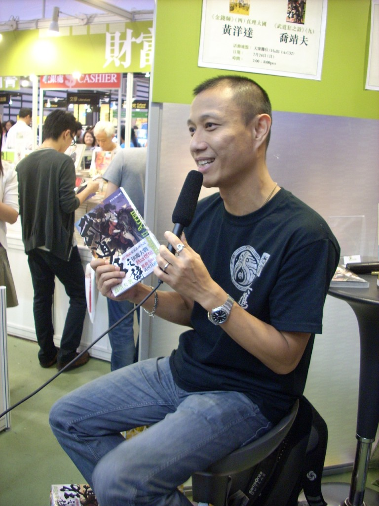 Ray in 2011 Hong Kong Book Fair